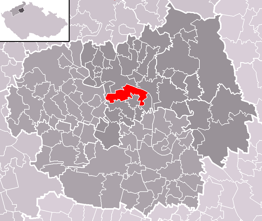 Location of Terezín town within Litoměřice District and administrative area of Litoměřice as a Municipality with Extended Competence.